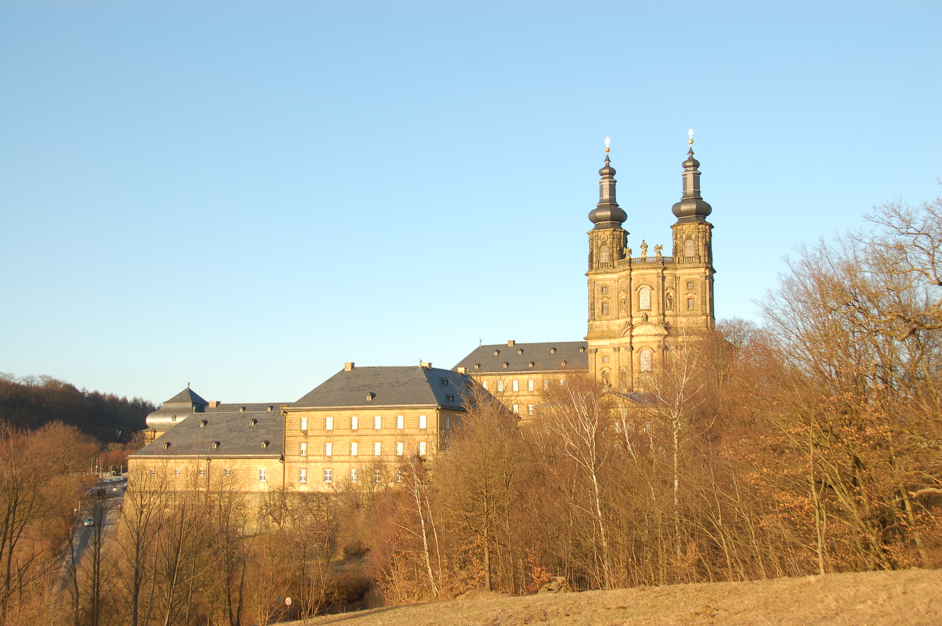 Banz Abbey; view from the cemetery